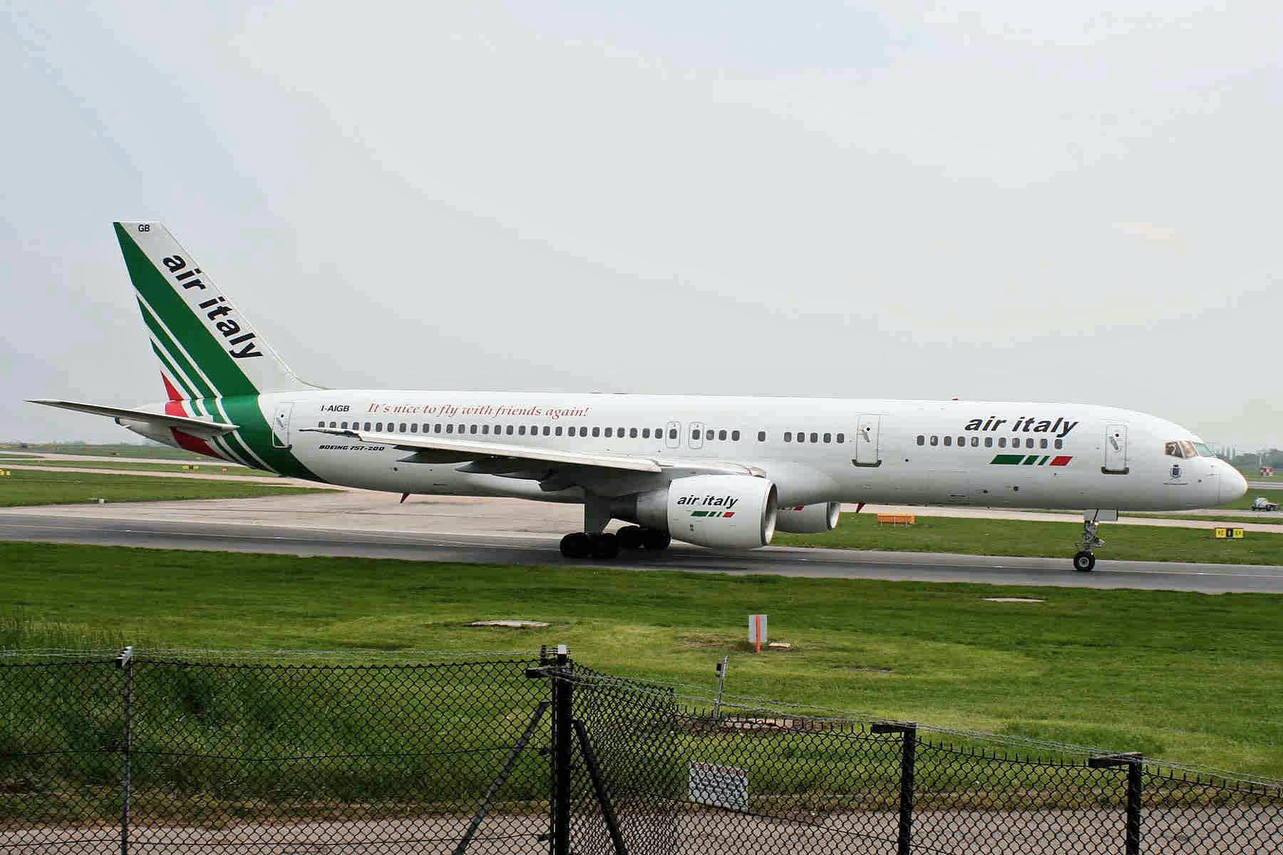 prior to being re-registered in Ireland